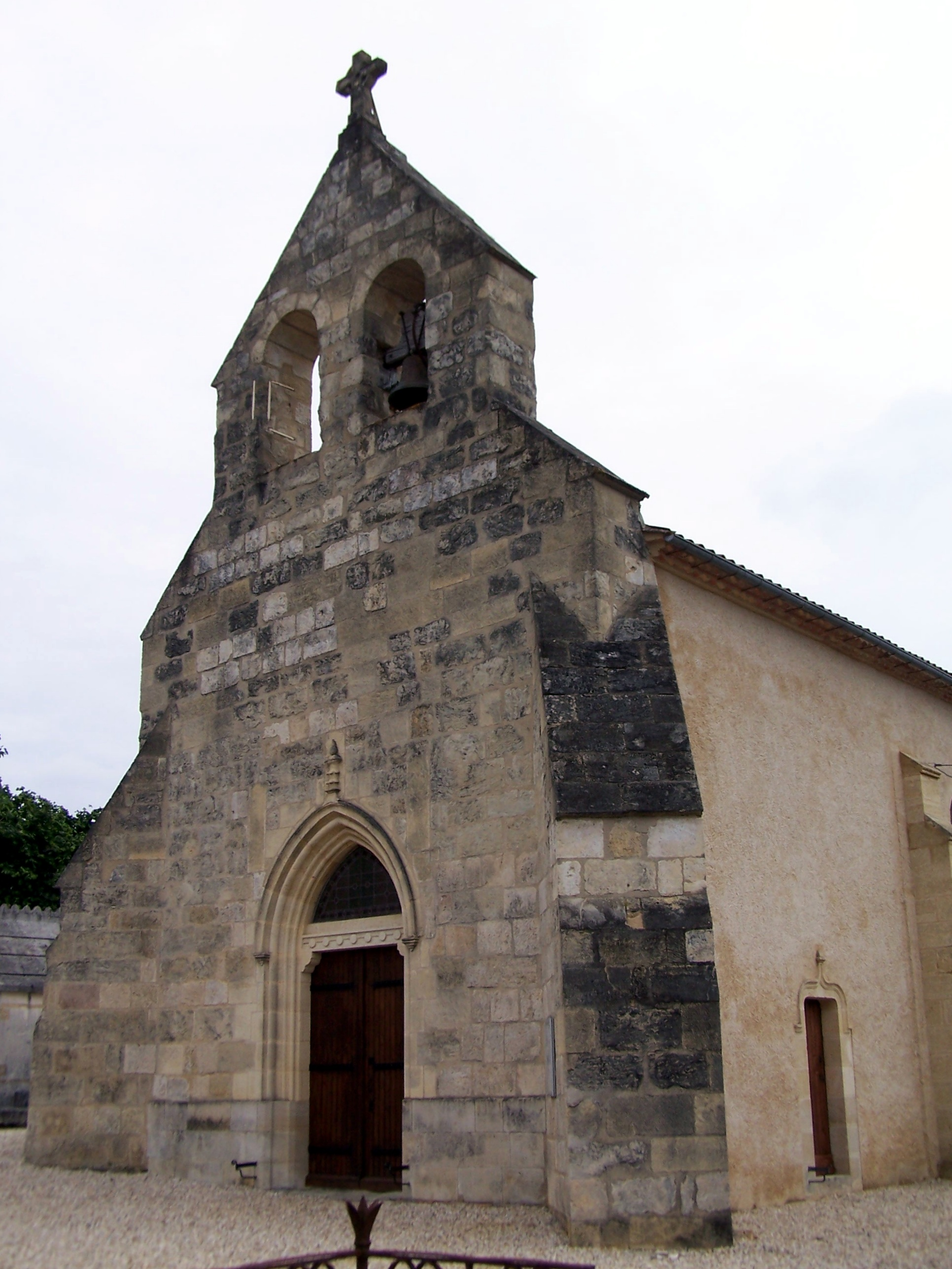 Saint-Christopher church of Donzac (Gironde, France)